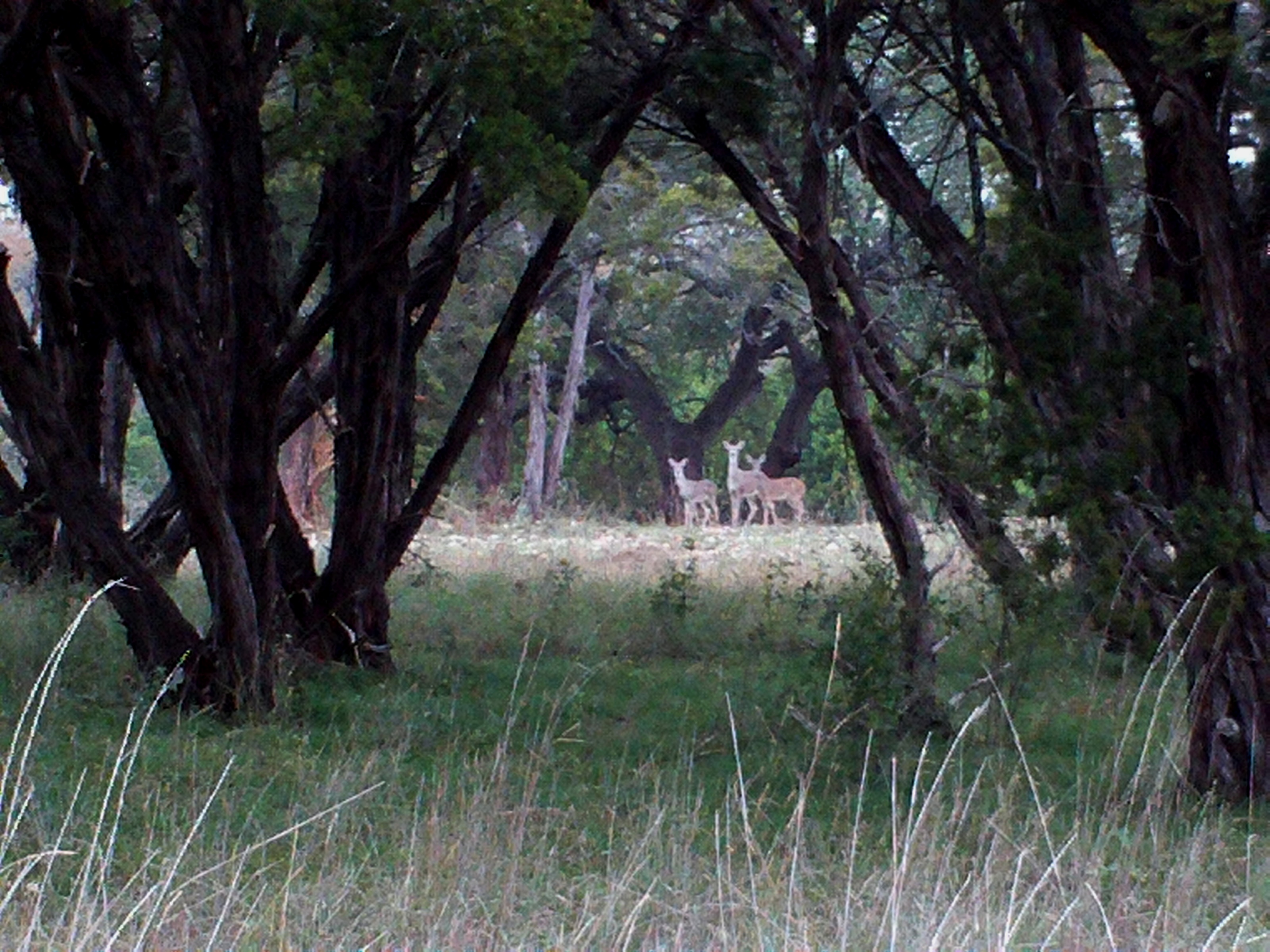 White-tailed deer (Odocoileus virginianus) on the Lake Whitney Ranch property.